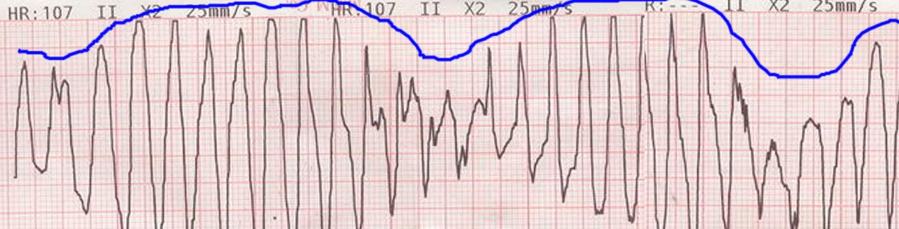 (Printout of telemetry reading showing Torsdade de pointes. The blue line shows the characteristic "twist" around the isoeclectric baseline (Anonymised ECG recording.))